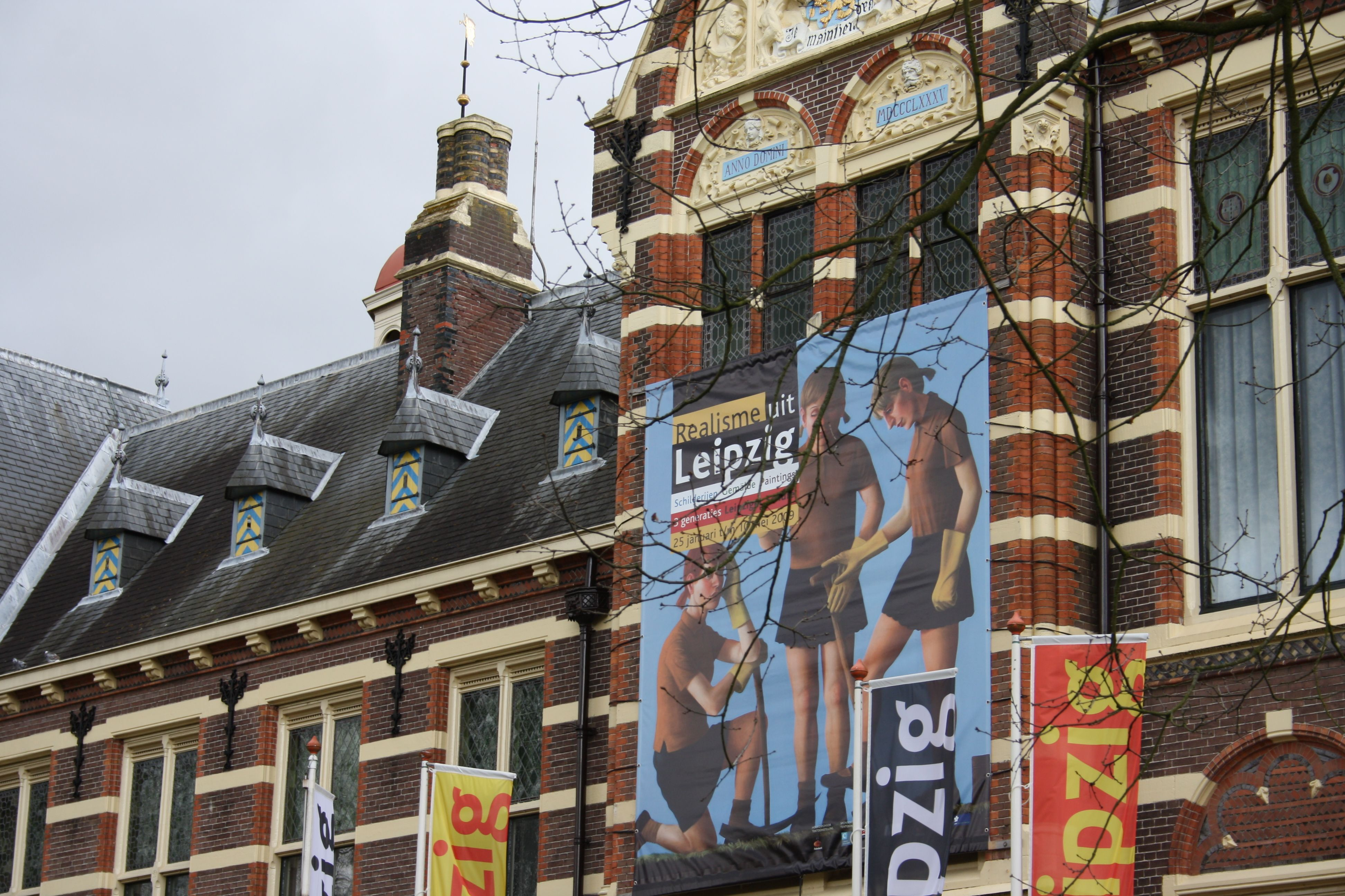 Drents Museum in Assen.